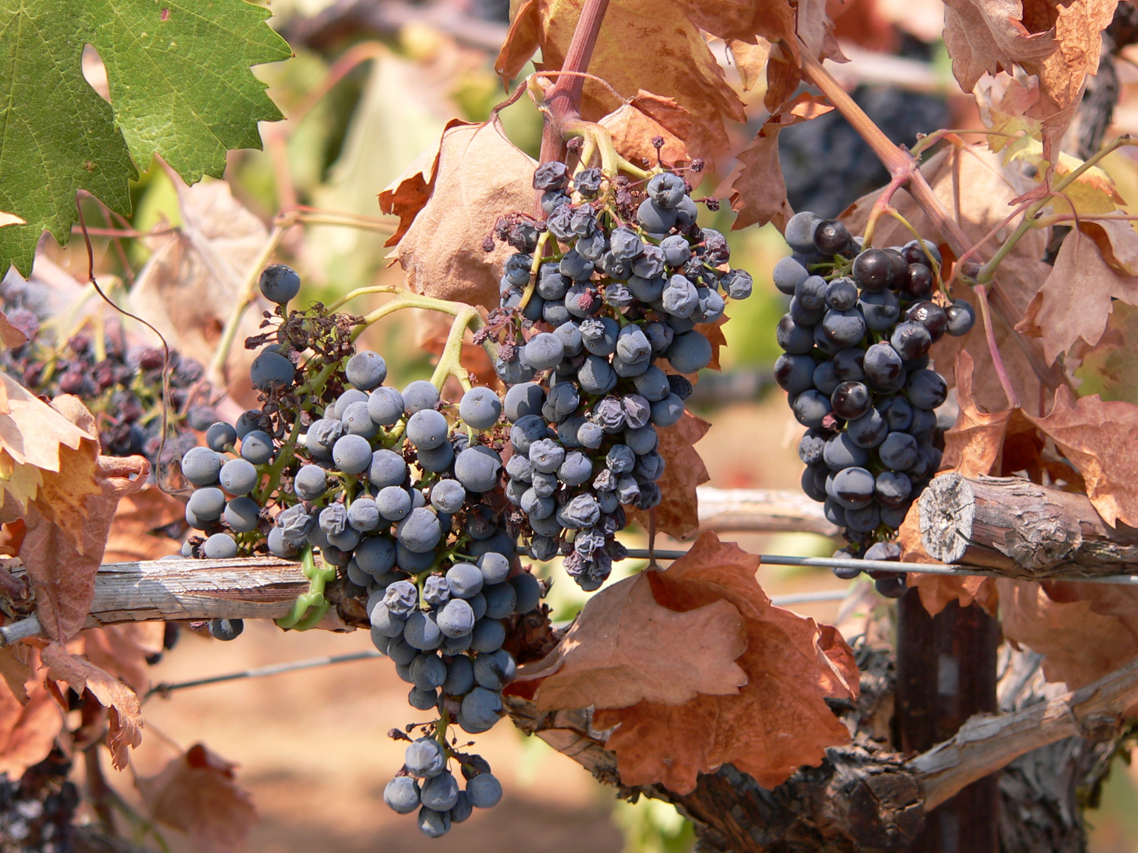 Wine grapes in early September in Amador County, California. This grapes (most likely Zinfandel) from this warm climate wine region are very ripe with woody brown stems. The grapes are so ripe that the moisture in some of the grapes are dehydrating which causes them to shrivel like raisins.